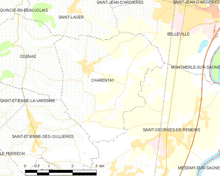 Map of French municipality